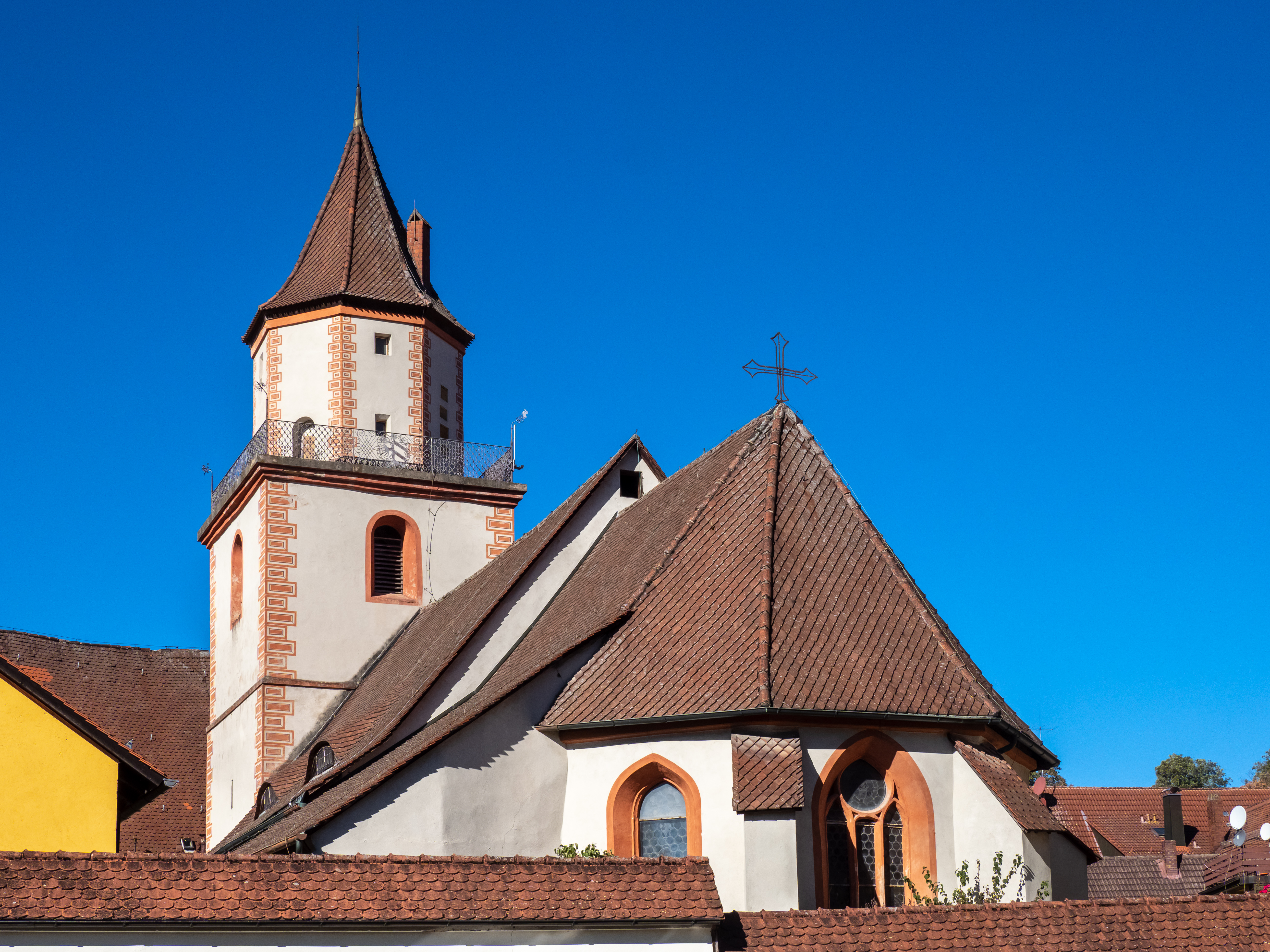 Evangelical Lutheran parish church in Gräfenberg